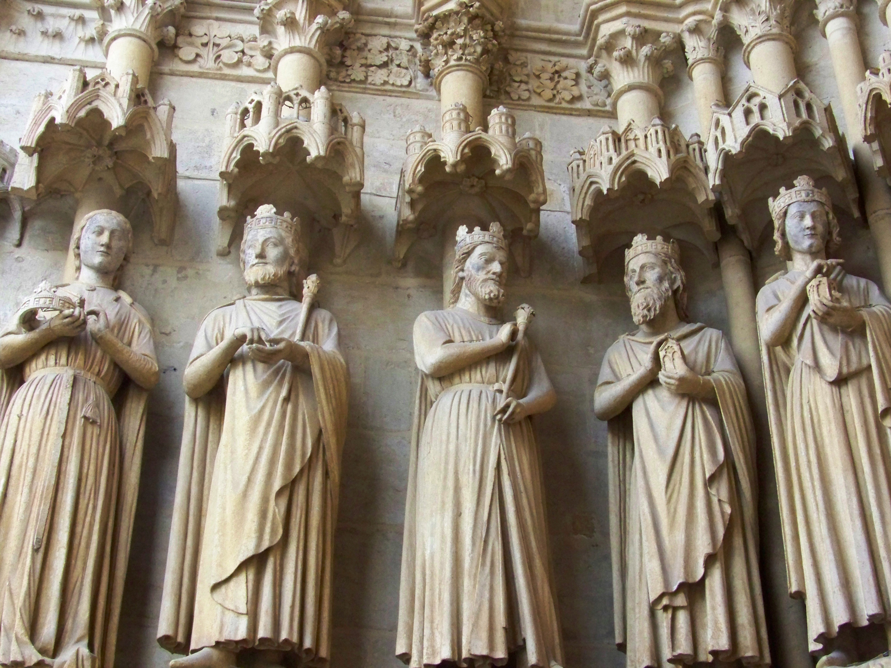 Kings on the central portal of the cathedral Notre-Dame in Amiens, France. Portal of the Mother Gods, from left to right: the Queen of Saba, King Salomon, King Herod followed by the two magi from the Massacre of the Innocents.